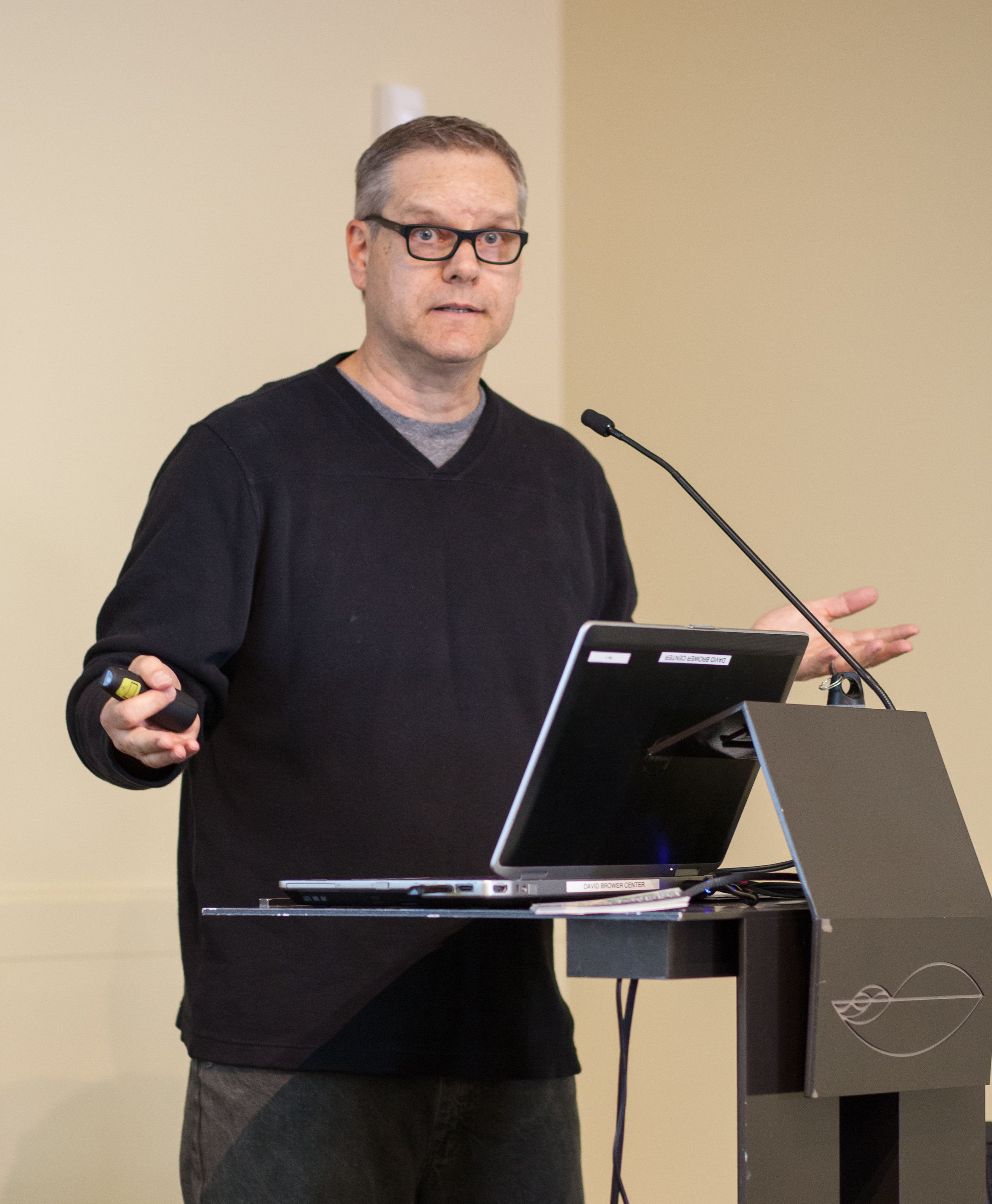 Mark Hawthorne speaks at Cow-Con, the Cowspiracy conference, Berkeley, September 2016.